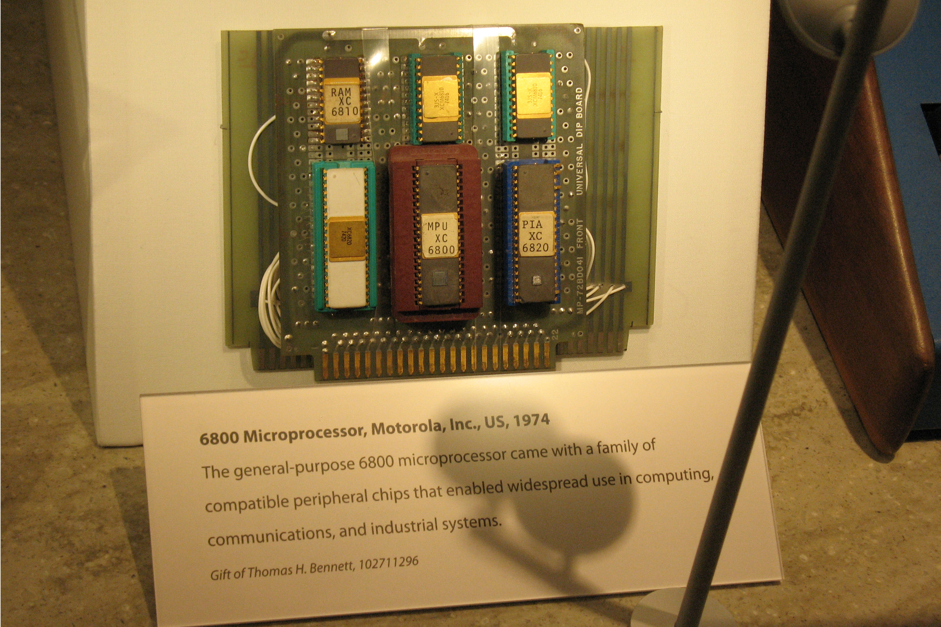 Motorola 6800 demonstration board built by Chuck Peddle and John Buchanan in 1974. The XC prefix indicates a pre-release chip.Top: XCM6810 128 byte RAMs. Date code 7416, 16th week of 1974 (April 23). Bottom: XC6820 PIA (parallel port). Date code 7420, 20th week of 1974 (May 21). Bottom center: XC6800 microprocessor no date code. Photo by Michael Holley at the Computer History Museum in Mountain View, California. Taken with a Canon PowerShot A630 using existing light on February 13, 2011.